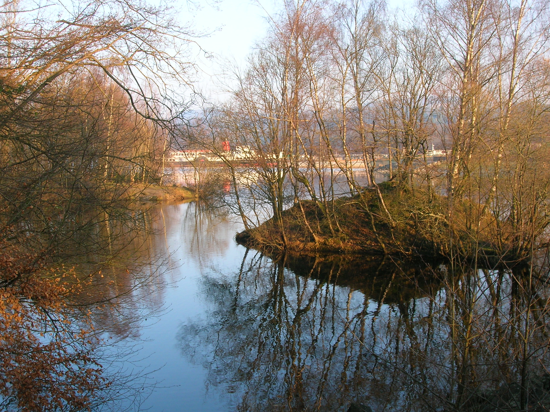 A view from the Lomond lochside with the Maid of the Loch paddle steamer in the background.